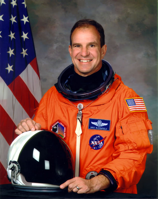 portrait astronaut Michael Bloomfield